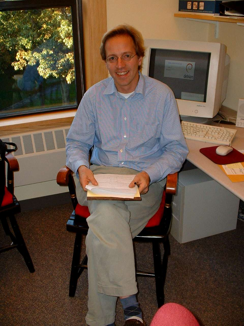 Robbert Dijkgraaf at Harvard University.